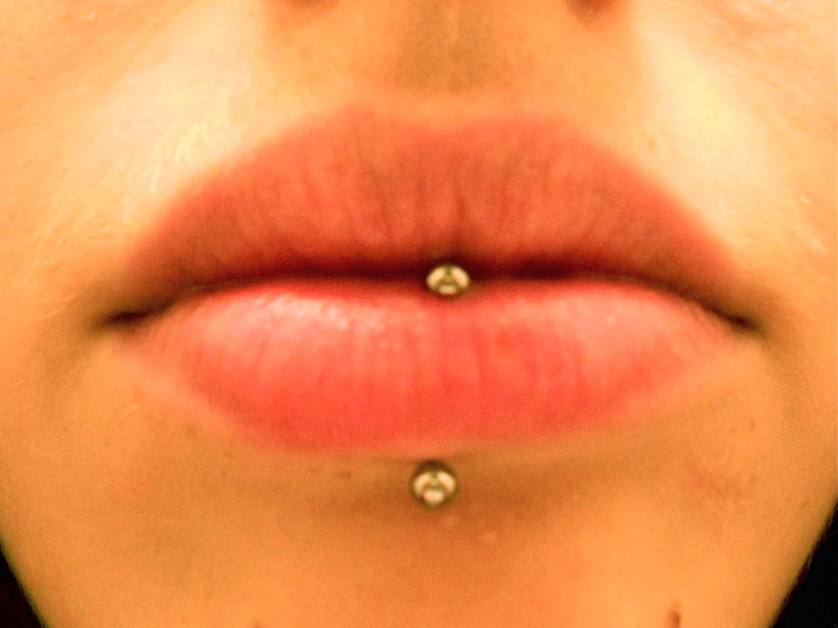 A fresh vertical labret piercing on a female.